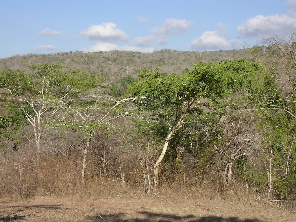 Tropical dry forest thickets, Daudere, Lautem, East Timor